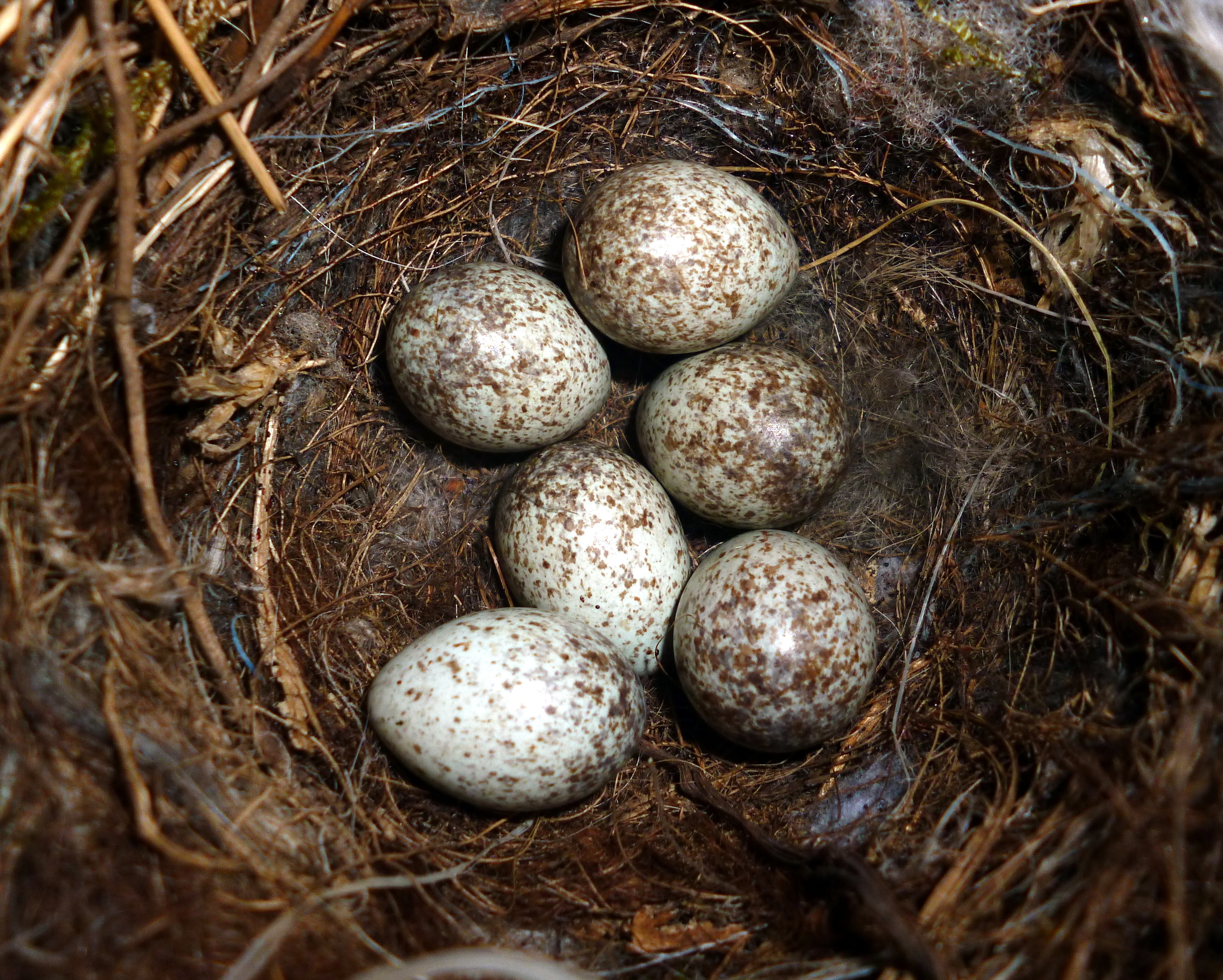 Eggs of White wagtail (Motacilla alba)